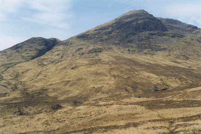 Slopes east of Beinn Fhionnlaidh A good route up the mountain is to aim for Meall nan Gobhar, the bump on the left of the picture, following a faint track going up first the left then the right side of the stream descending from the visible gully.